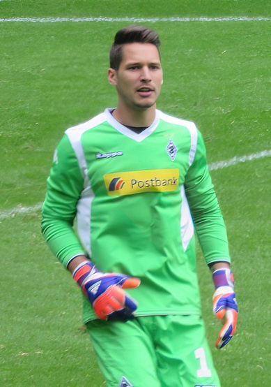 Janis Blaswich